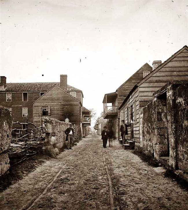 St. Augustine Florida Historic District